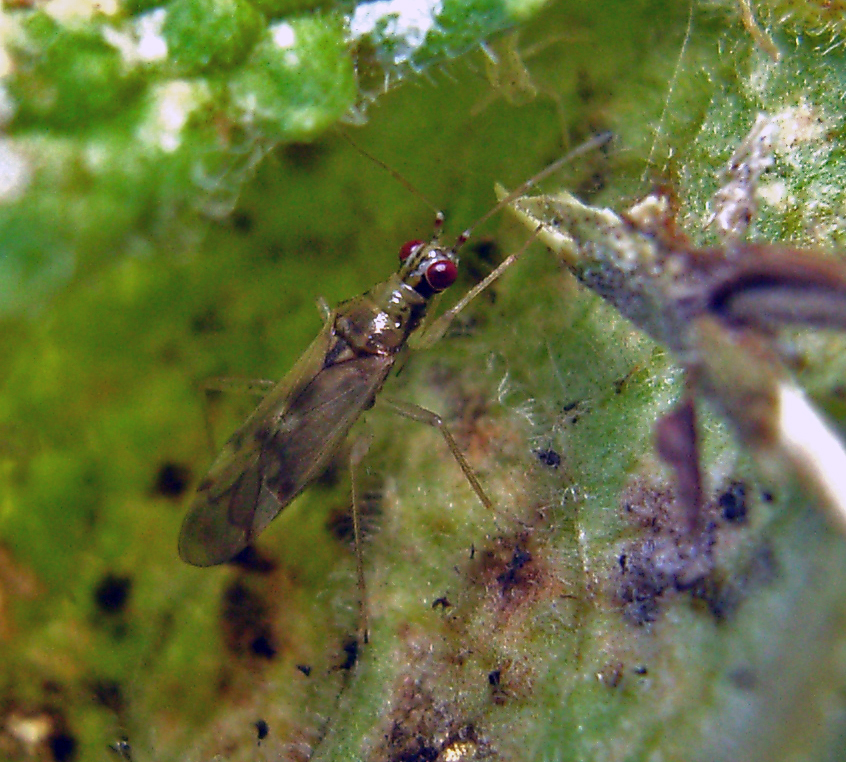 Dicyphus pallicornis (Miridae), on Digitalis purpurea, Lower Saxony (Germany)